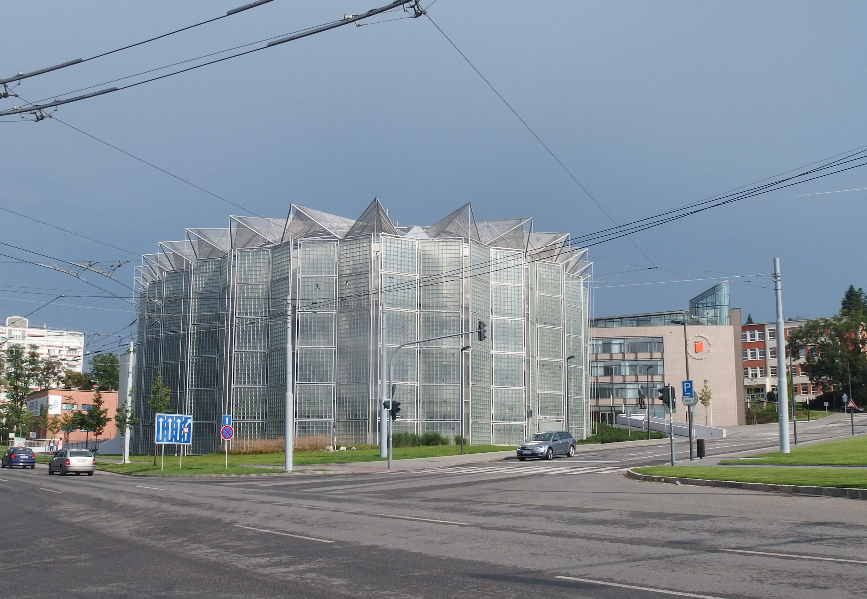 Zlín, Czech Republic. Congress Center.